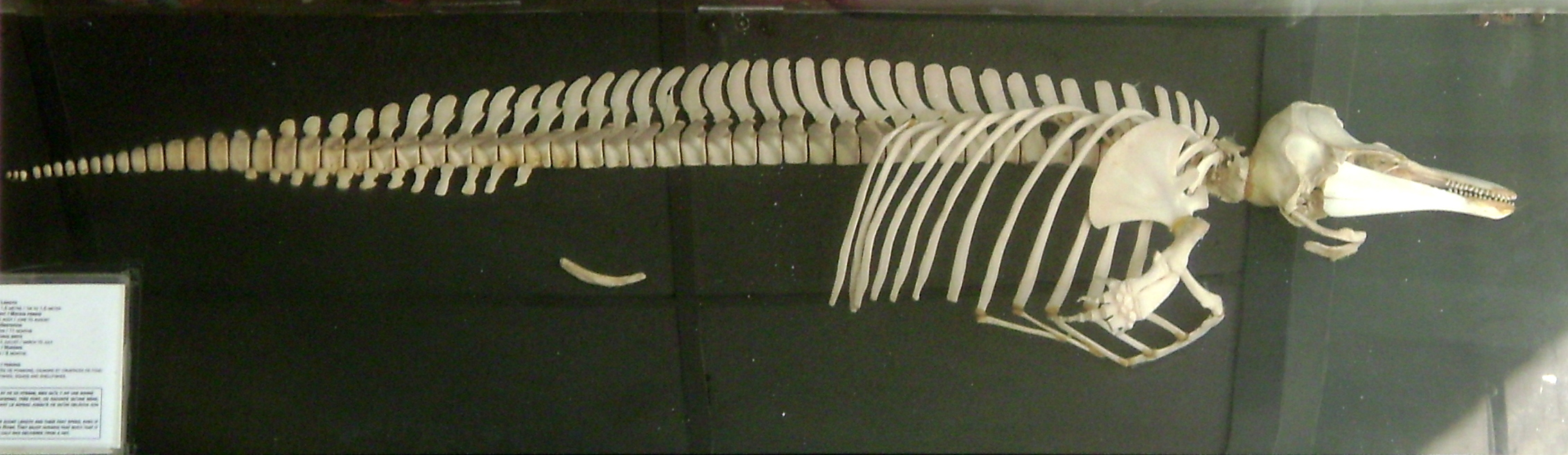 Harbour porpoise (Phocoena phocoena) skeleton exposed on the Cavalier des mers, whale cruise boat based in Rivière-du-Loup, province of Québec